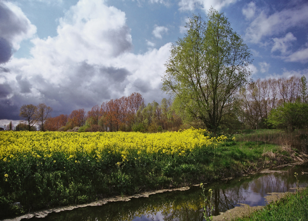 Zulawy near Gdansk - Przejazdowo